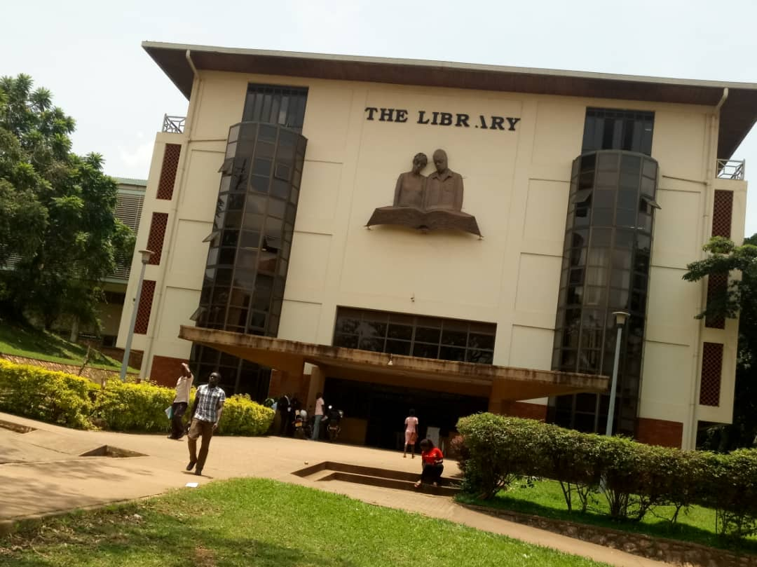 English